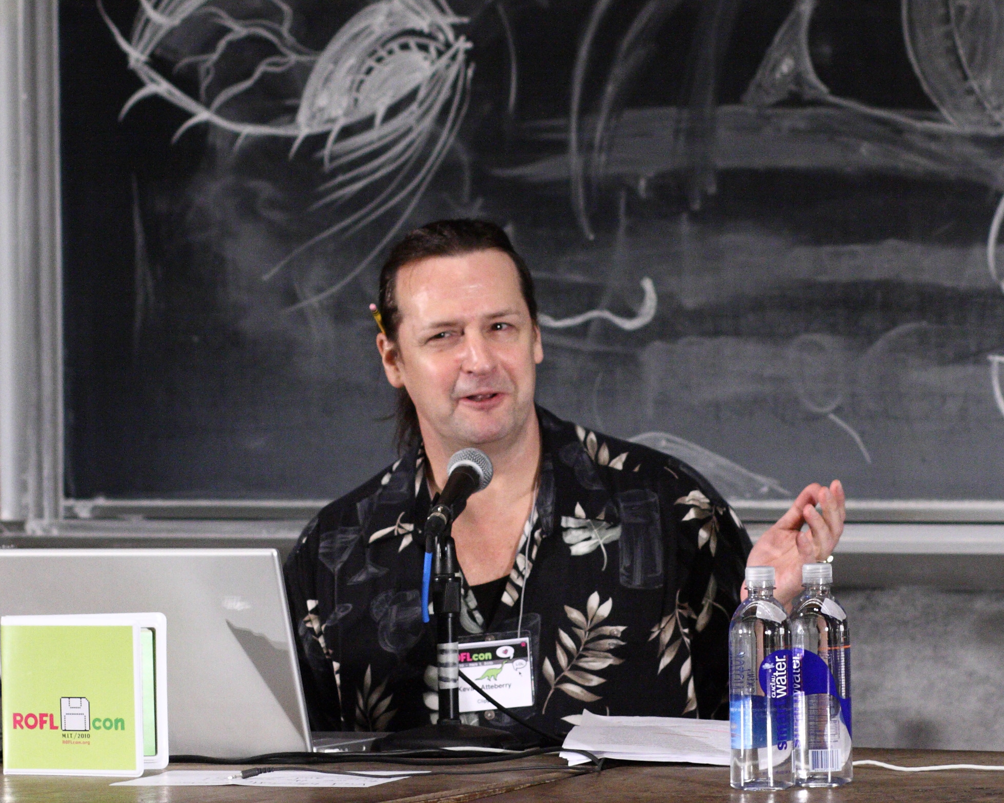 Kevan Atteberry, the creator of Clippy, at ROFLCon II